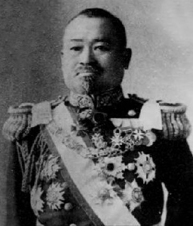 Katou Teikichi is an Imperial Japanese Navy Full Admiral